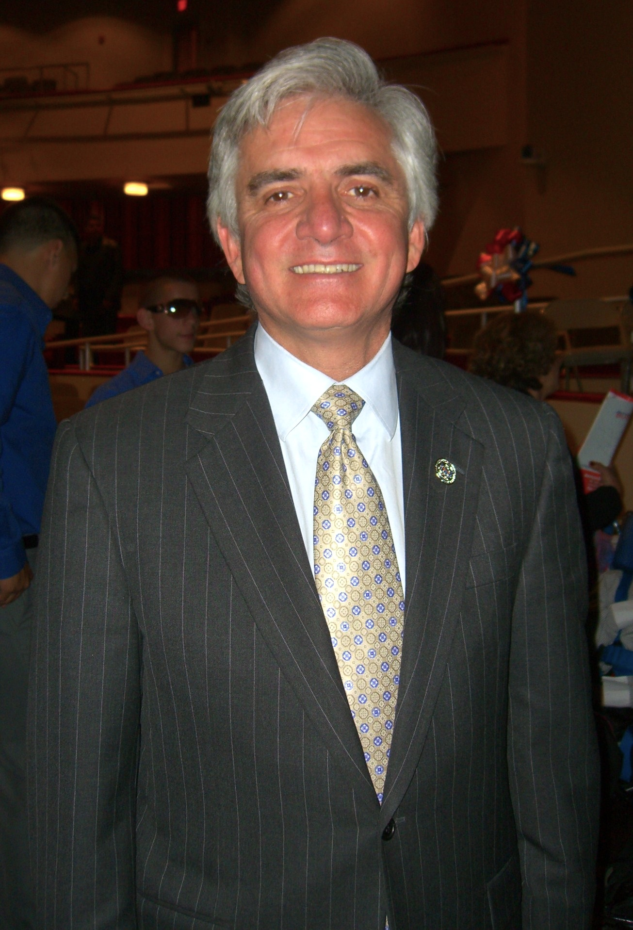 West New York Mayor Silverio Vega at the swearing-in ceremony of Union City, New Jersey Mayor Brian P. Stack at Union City High School on May 18, 2010, following Stack's re-election victory on May 11. Photo by Luigi Novi. This photo may be used and modified, for any purpose, only if the photographer is visibly credited in each instance in which it is used. (See licensing information below.) For more information on my photos, you can contact me here.